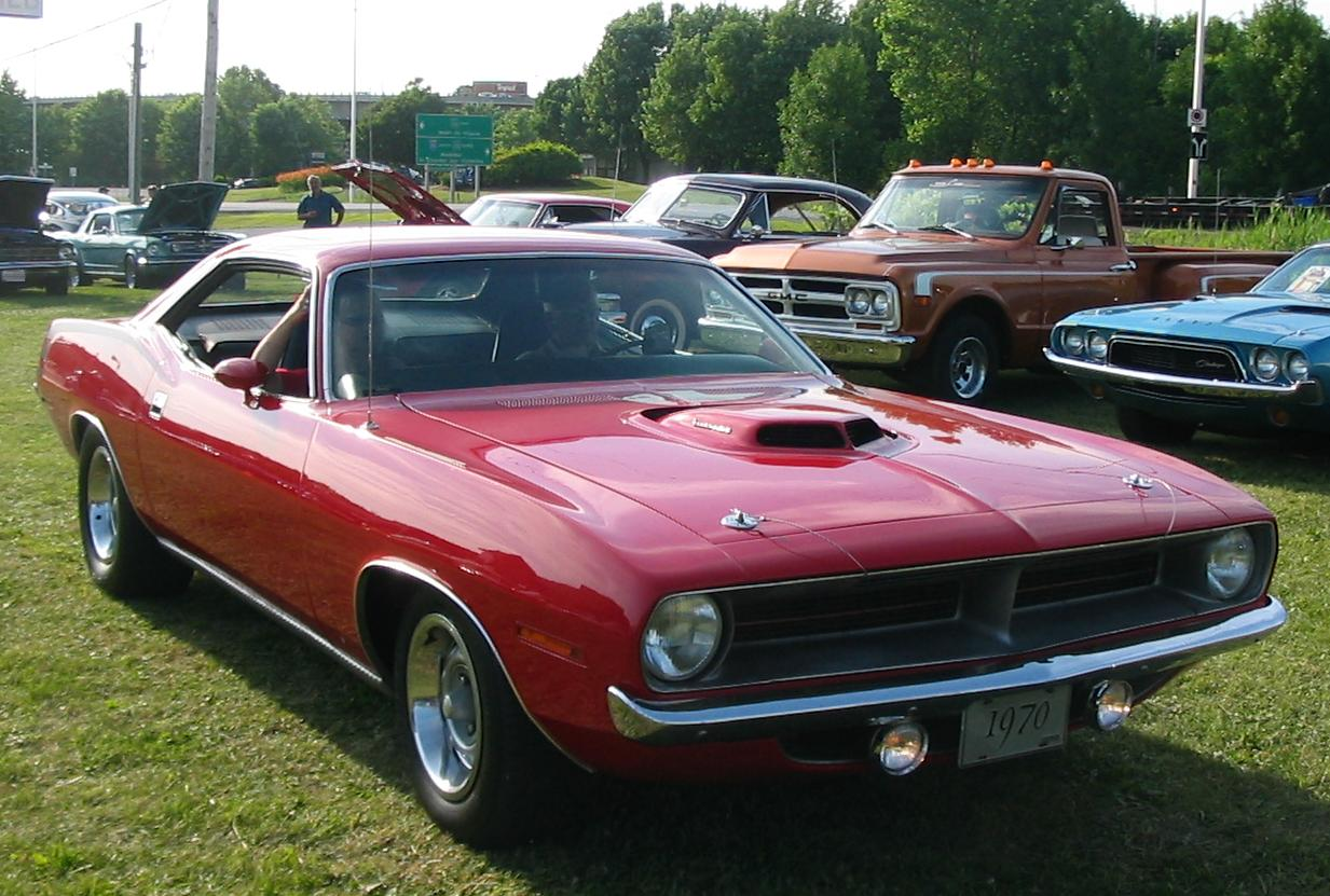 1970 Plymouth Barracuda photographed in Mont St. Hilaire, Quebec, Canada at the Auto classique VAQ Mont St-Hilaire.